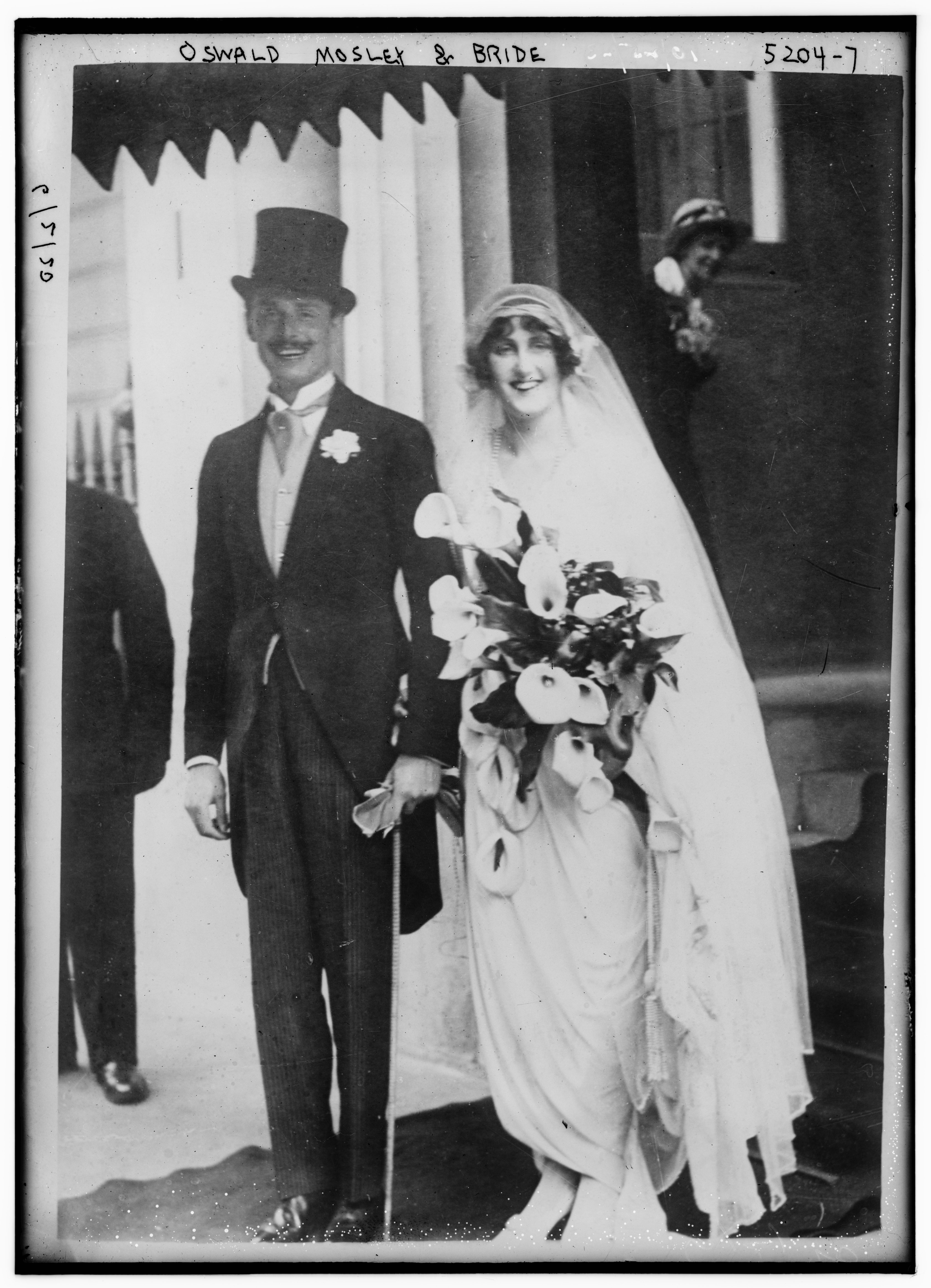 British politician Sir Oswald Ernald Mosley, 6th Baronet (1896-1980) and Lady Cynthia, née Cynthia Blanche Curzon (1898-1933), on their wedding day.